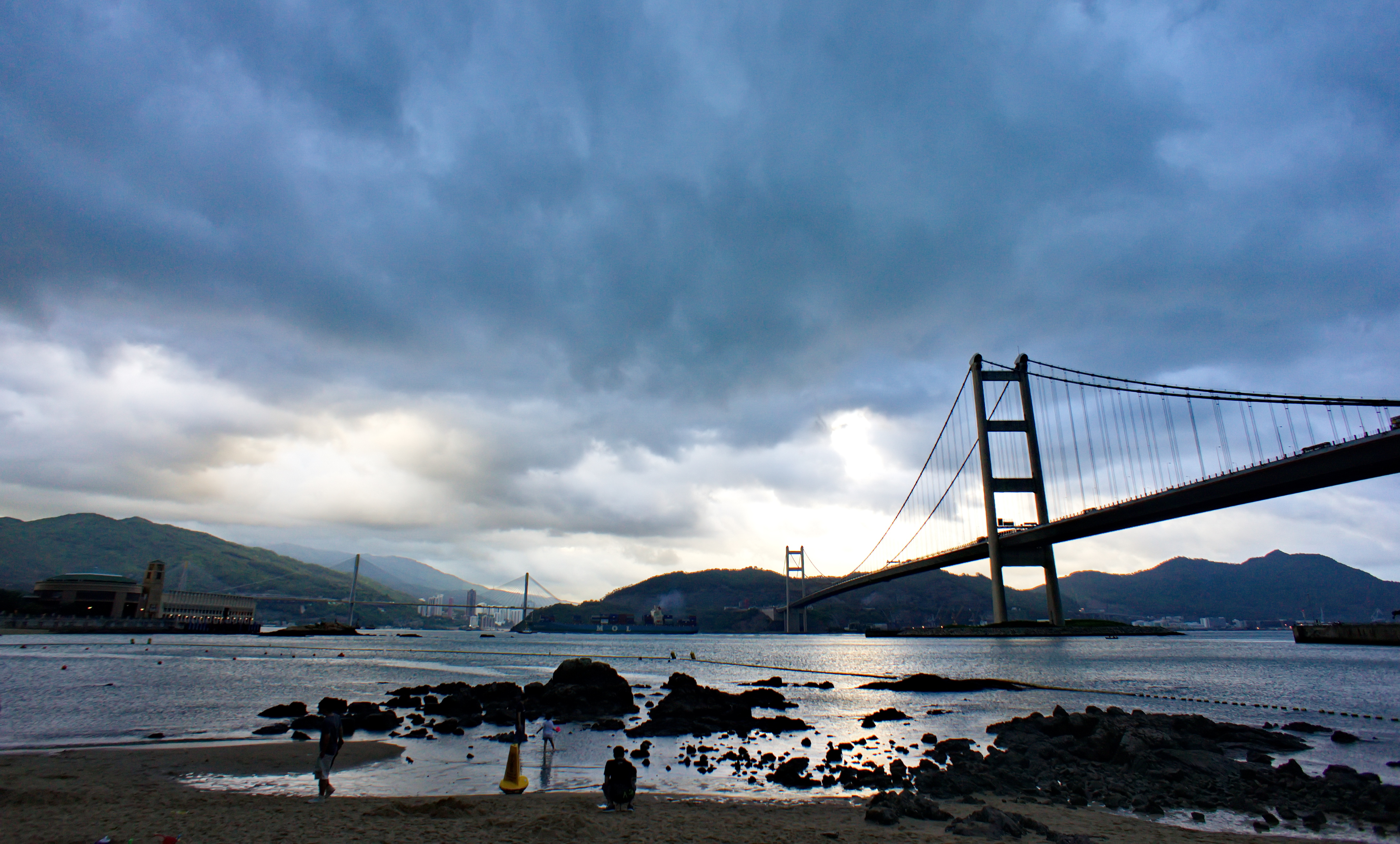 Ma Wan Tung Wan Beach, Hong Kong.